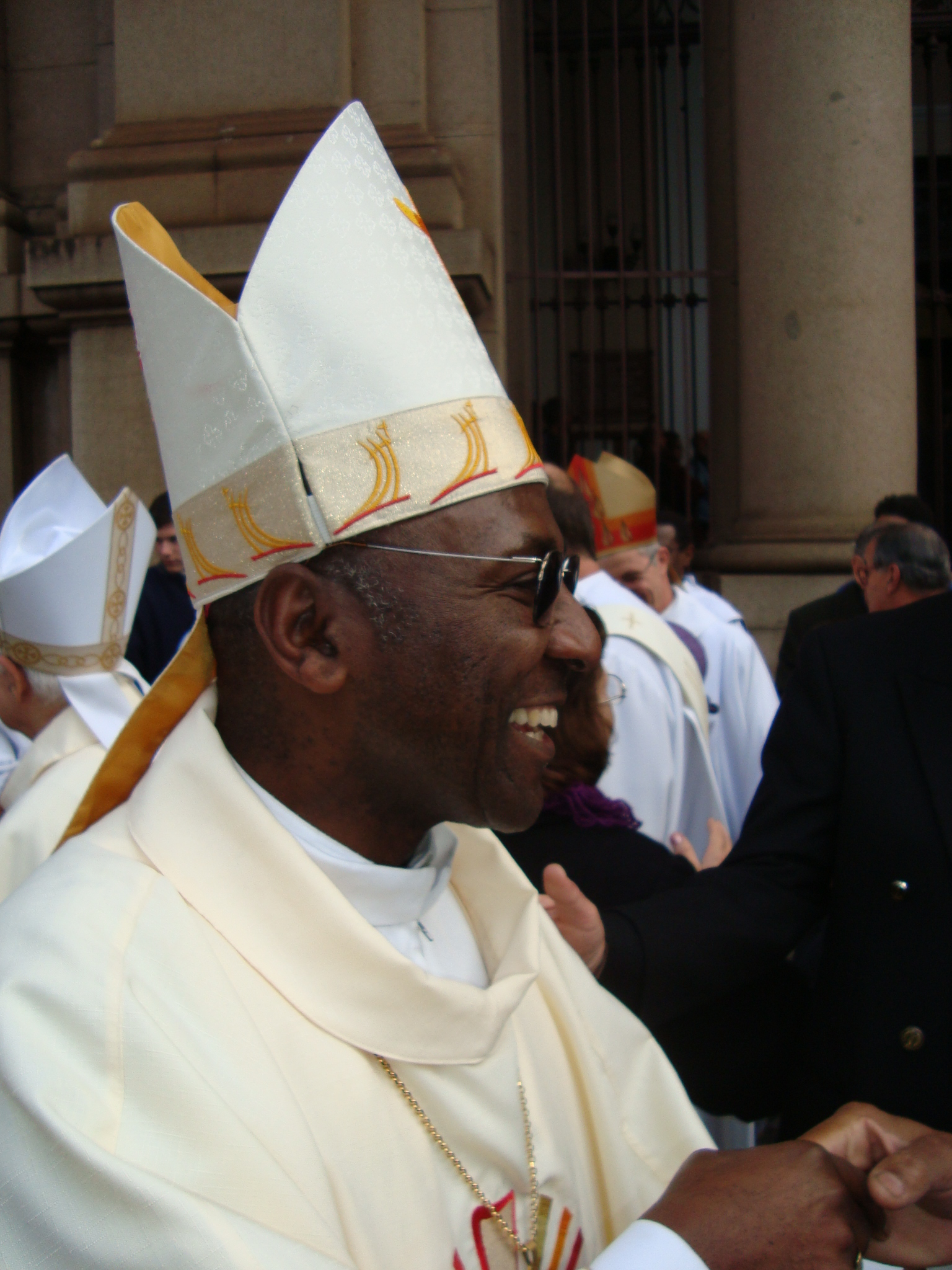 Gílio Felício, Catholic Bishop of Bagé, Brazil